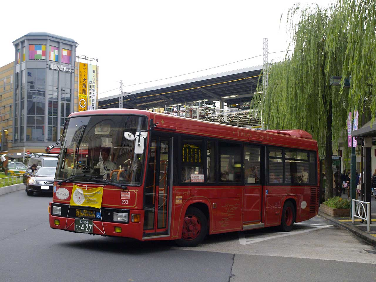 Fleet of Tokyu Bus, for Tokyu Coach Jiyugaoka route. Model: Hino Rainbow KK-HR1JKEE License plate: TKS200KA-427 Place: Jiyugaoka station, Meguro Ward, Tokyo Japan